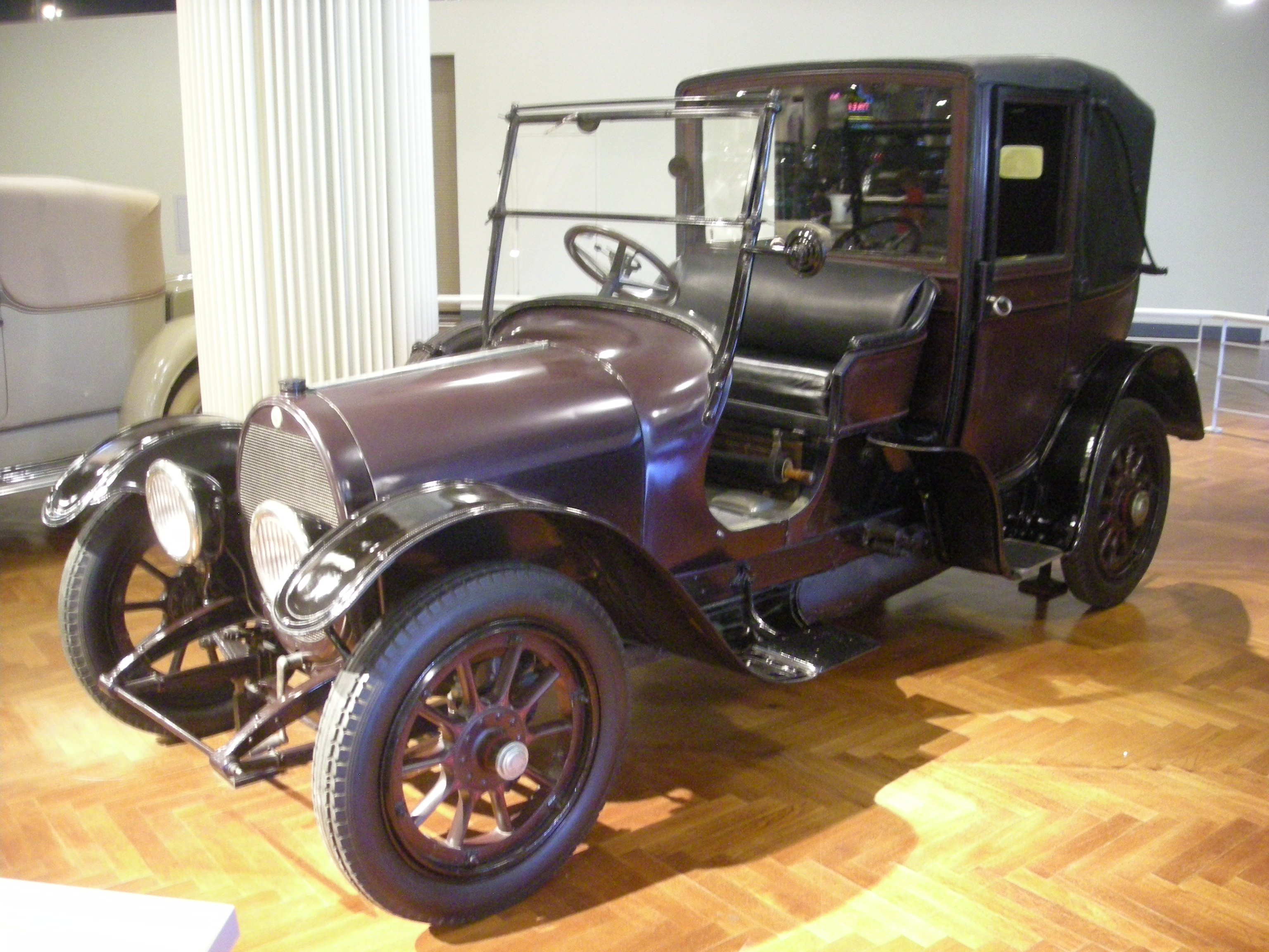 A 1915 Brewster on display at the Henry Ford Museum in Dearborn, Michigan (United States).